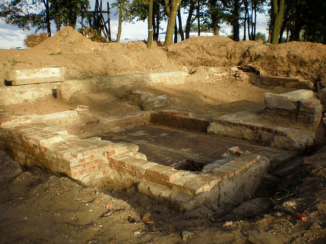 Ruins of one of the original buildings at Westerplatte. The Polish Government, local authorities and the Reconstruction Group of Westerplatte with the help of EU are trying to rebuild them. Camera: Olympus FE190/X750 License on Flickr (2011-01-25): CC-BY-SA-2.0 Flickr tags: 2007.09.01, gdańsk, westerplatte, ww ii